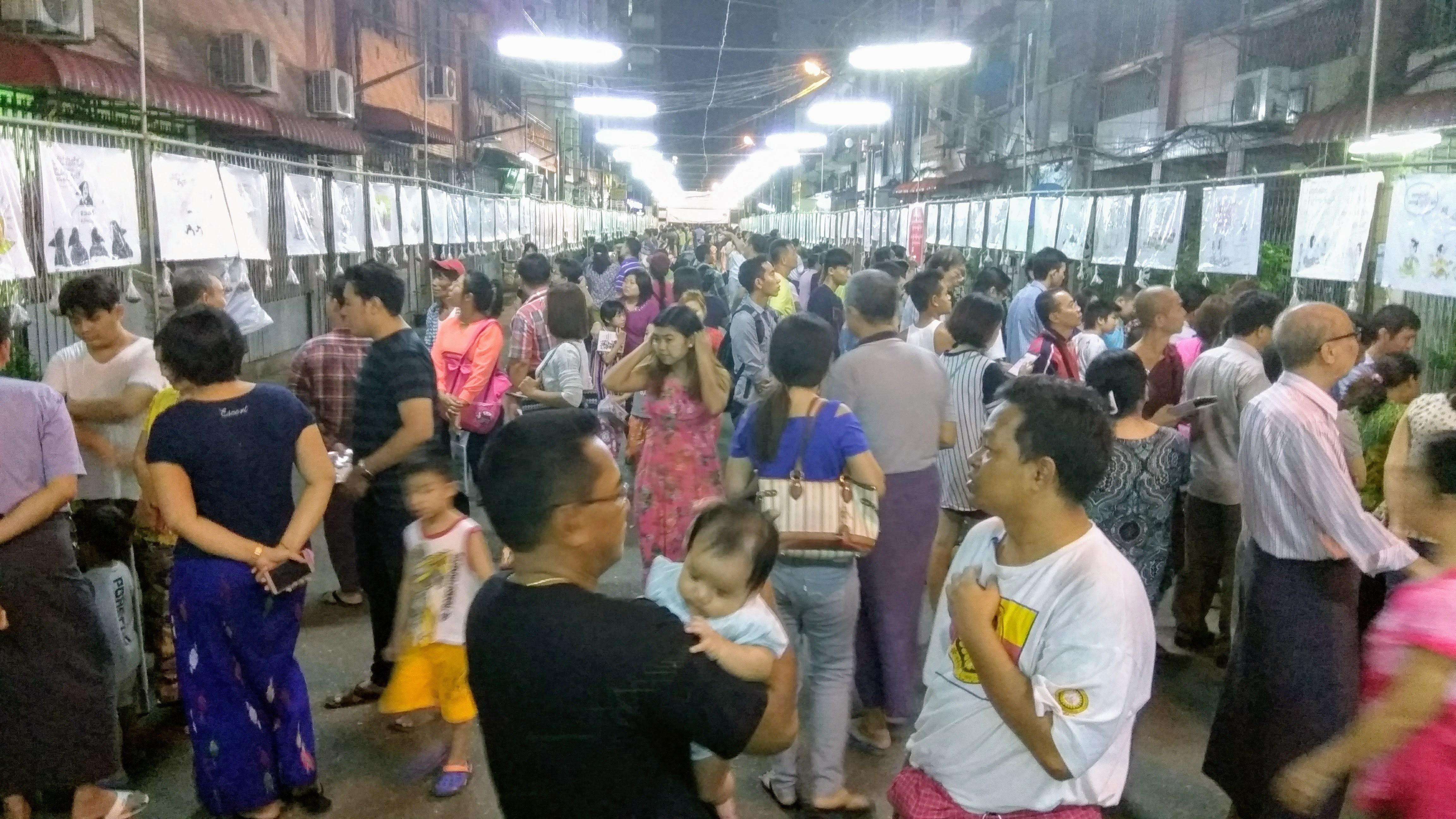 (73rd) Anniversary U Ba Gyan Street (Lower 13 Street) Cartoon Festival, Lanmataw Township, Yangon မြန်မာဘာသာ: (၇၃)ကြိမ်မြောက် ဦးဘဂျမ်းလမ်း တန်ဆောင်တိုင် ကာတွန်းမီးထွန်းပွဲ၊ အောက် (၁၃)လမ်း၊ လမ်းမတော်မြို့နယ်၊ ရန်ကုန်